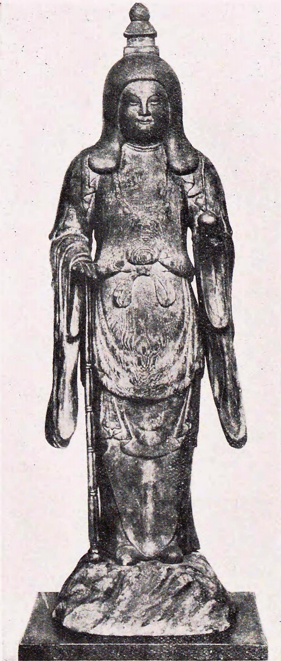 A statue of Uhō-dōji made in Heian period at Kongōshō-ji, Ise, Mie prefecture. An Important Cultural Property of Japan.